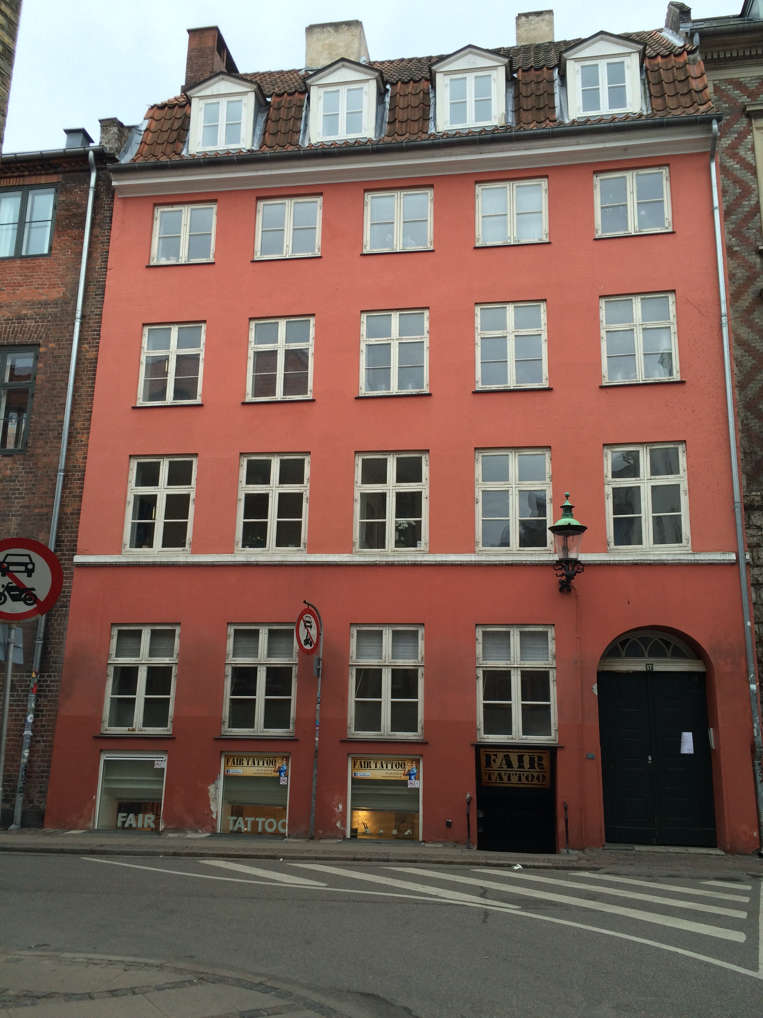 Sankt Peders Stræde 17, Copenhagen, Denmark in 2016. Housed Børnehuset